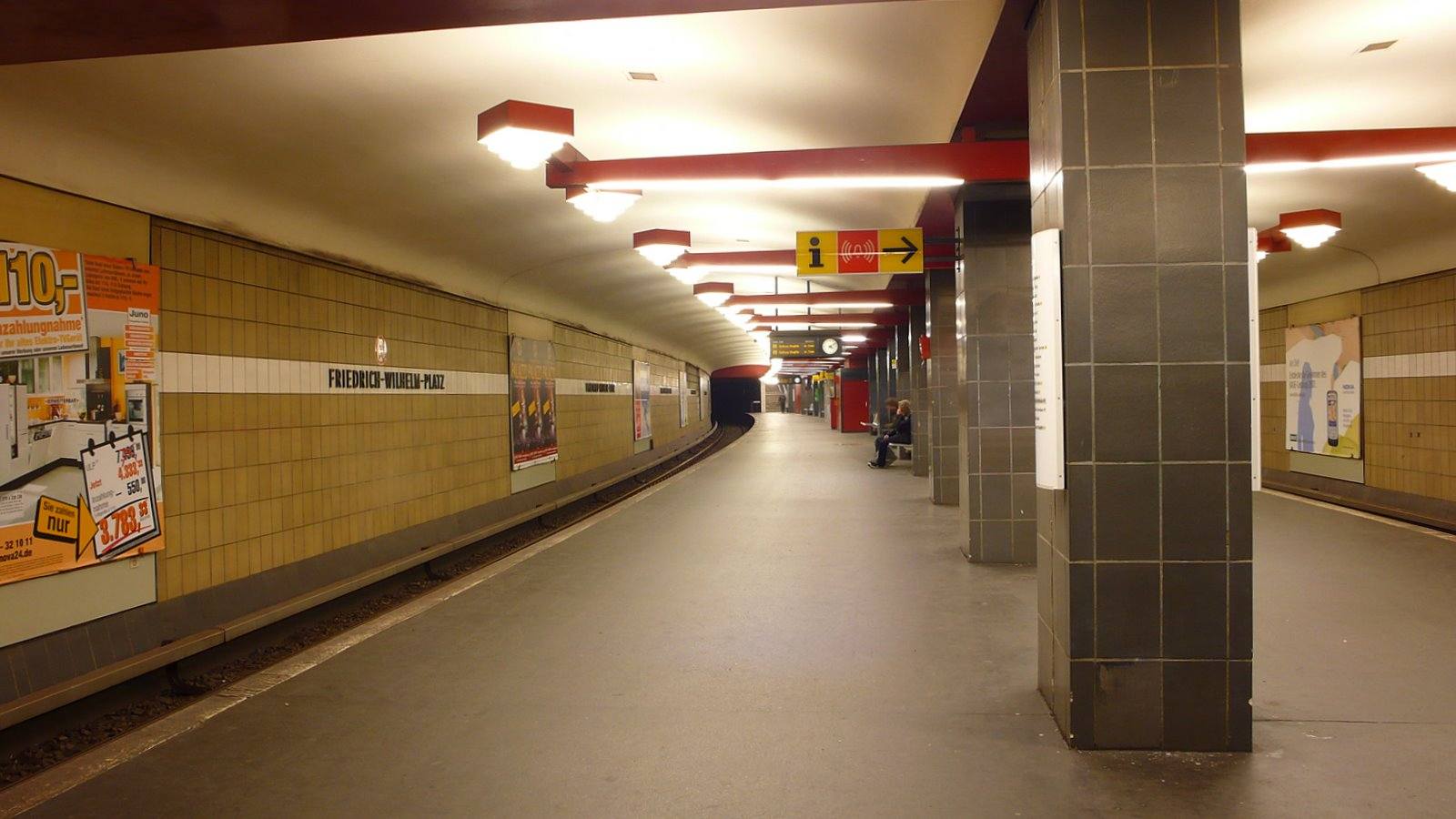 Subway Fr wilhelm platz